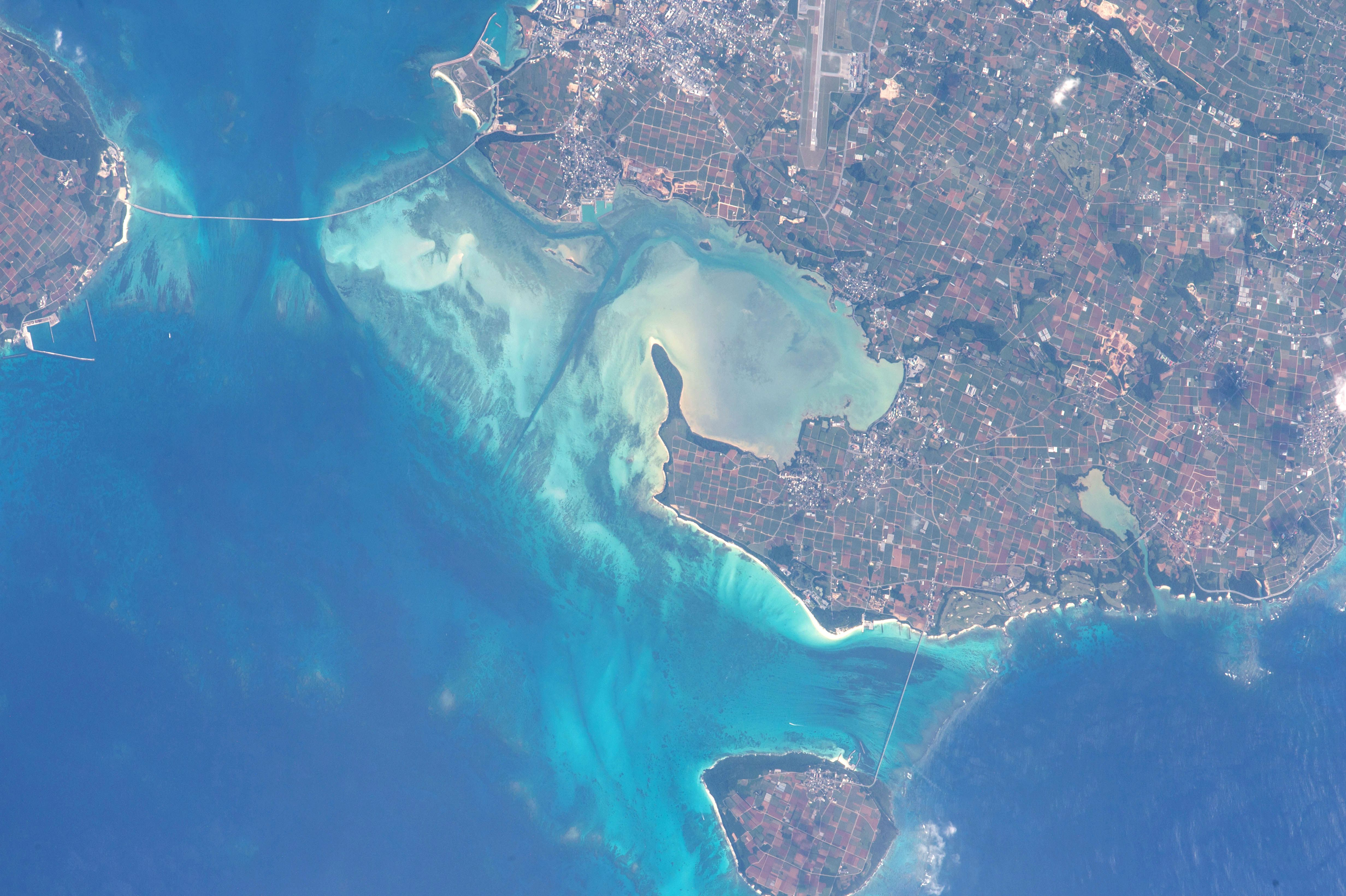 Yonaha Bay (center), Kurima Island (lower), Irabu Island (left), and Irabu Bridge, located in Miyakojima, Okinawa prefecture, Japan.